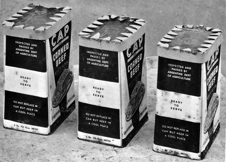 Canned meat from Argentine photographed for the Federal Commerce Department.